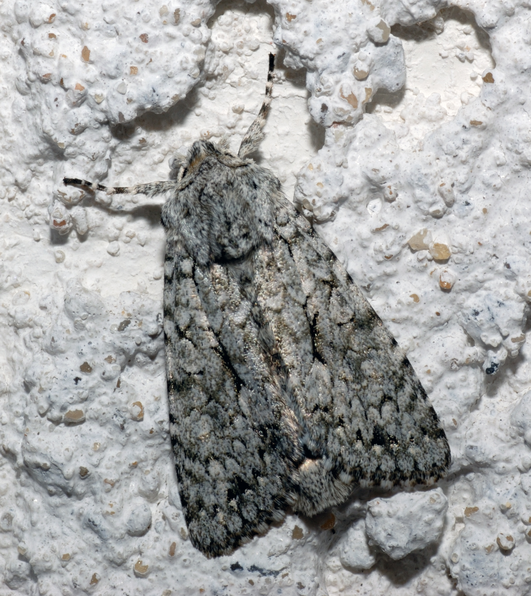 This image shows a Grey Chi (Antitype chi). The photo has been taken on the facade of a summerhouse in Drebach, Germany.